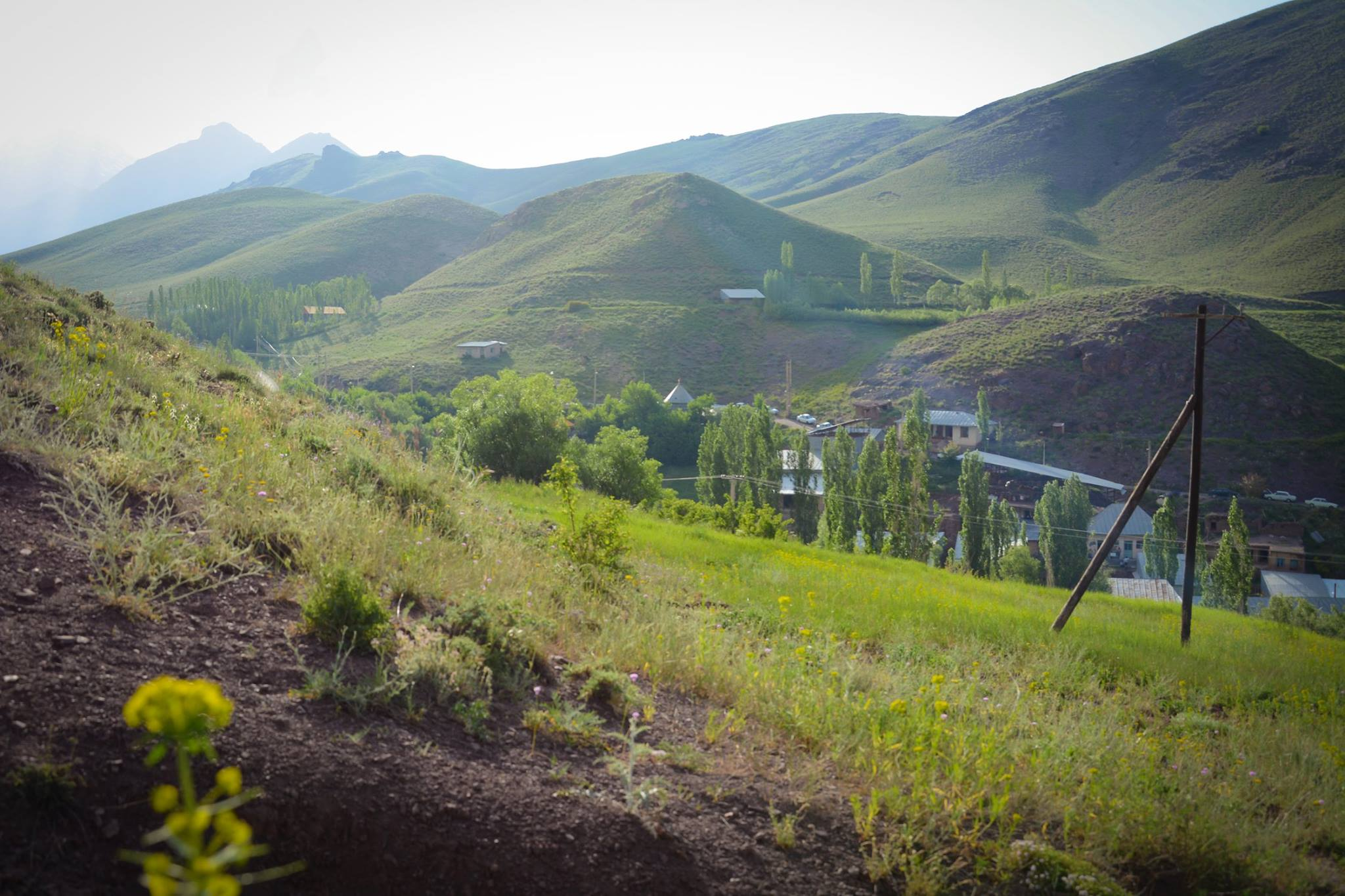 An image of Pichdeh